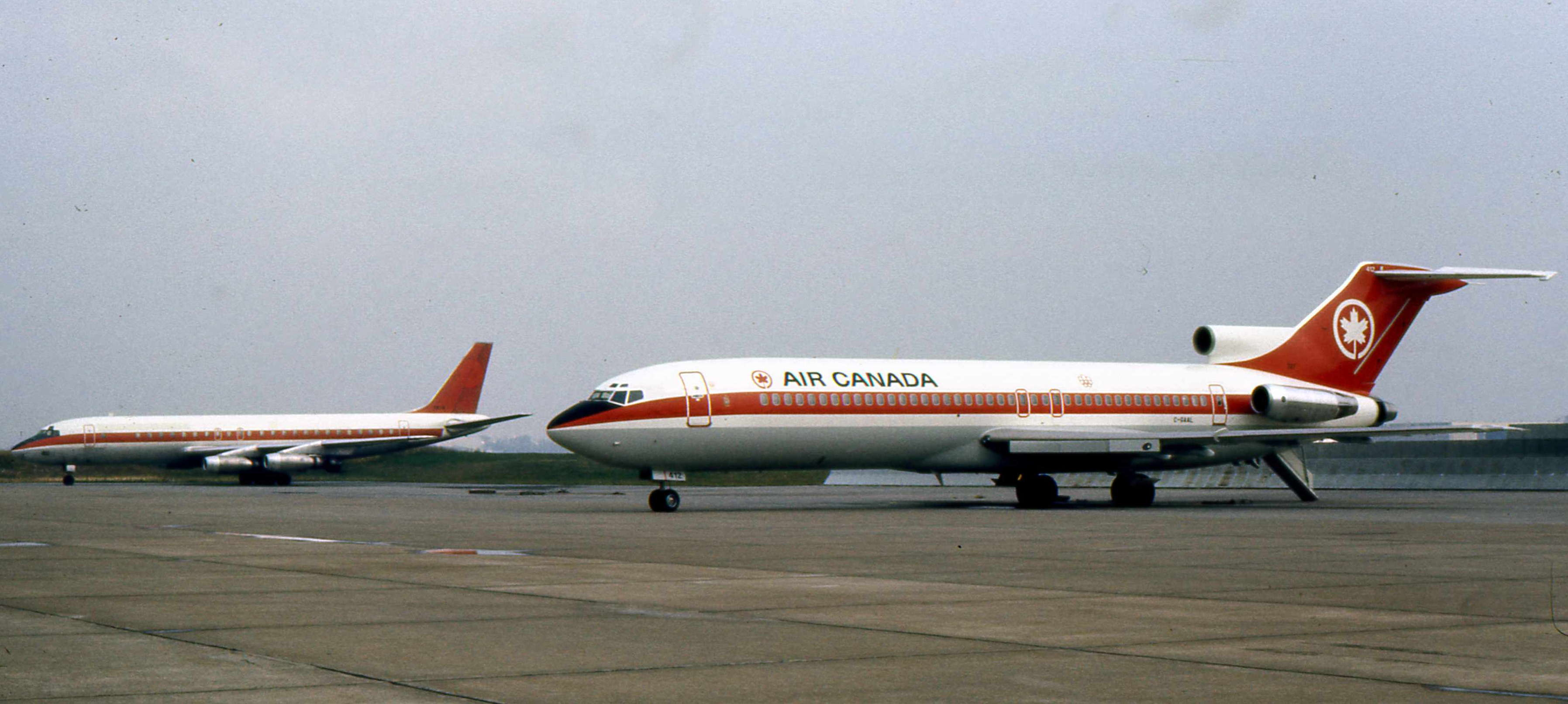 Canada, Air Canada Boeing 727-233F C-GAAL, c/n 21100/1148, first flight in 1975-07-23. Delivered to Air Canada in 1975-08-21, withdrawn from use in February 1991 and leased to Air Transat. Bought by CIT Leasing in April 1992 and registered N727SN. Delivered to Amerijet International in December 1994, converted to freighter and re-registered N395AJ. Here is taken at Air Canada mainatenance base.